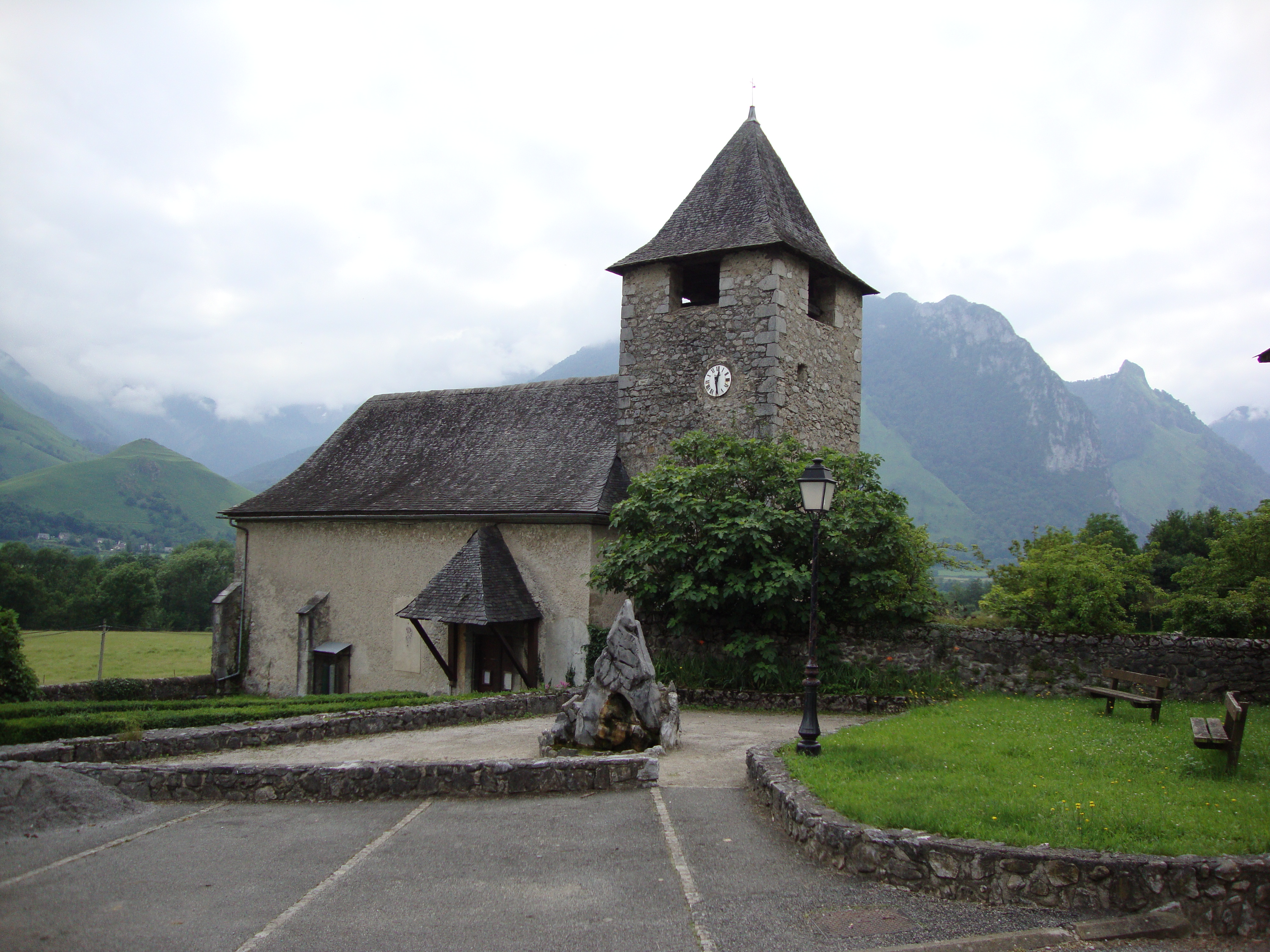 Athas (Lées-Athas, Pyr-Atl, Fr) church